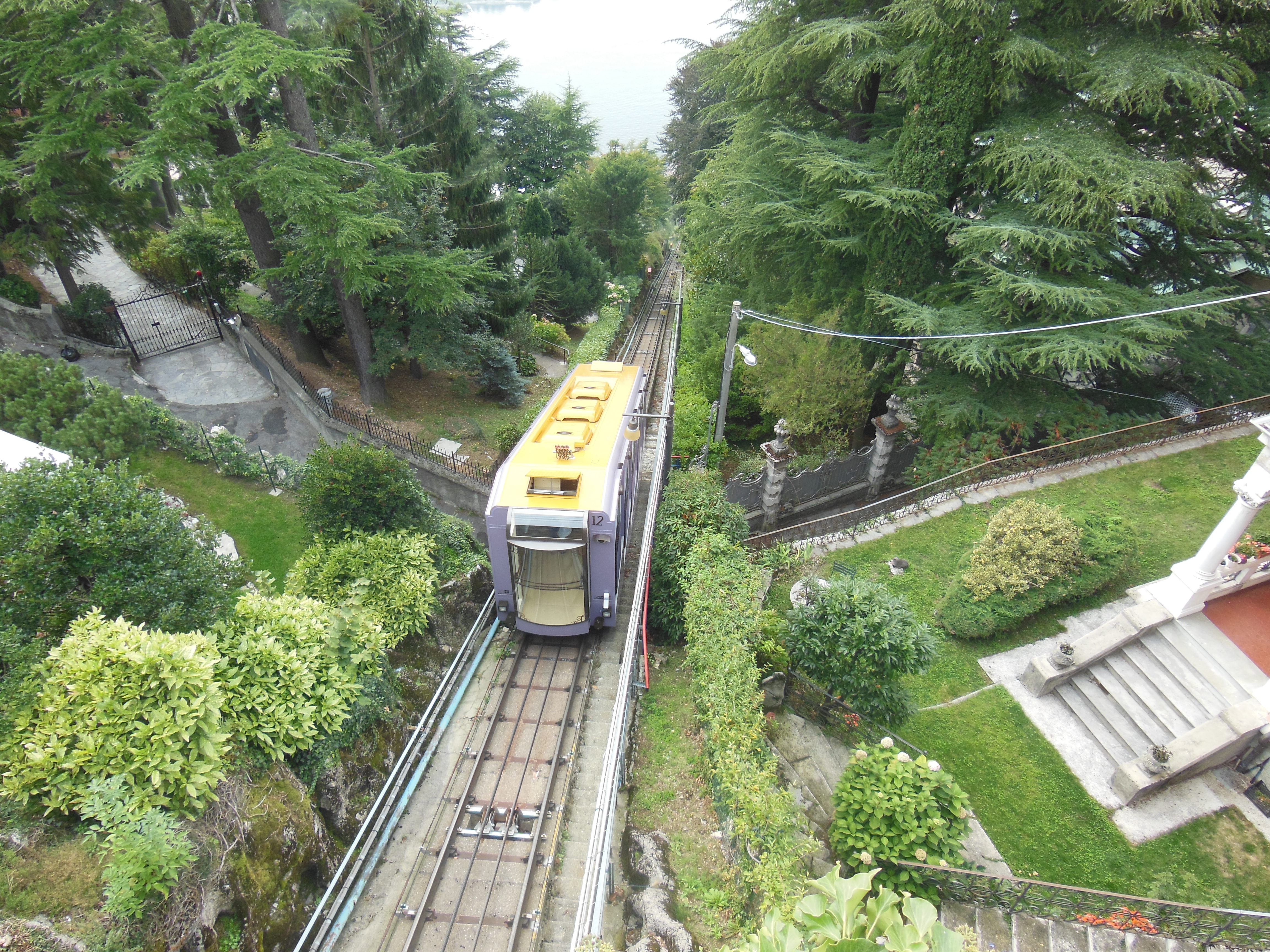 Looking down the line of the Como–Brunate funicular, from a road bridge just below the upper station. One of the cars is descending. For more information, see the wikipedia article Como–Brunate funicular.